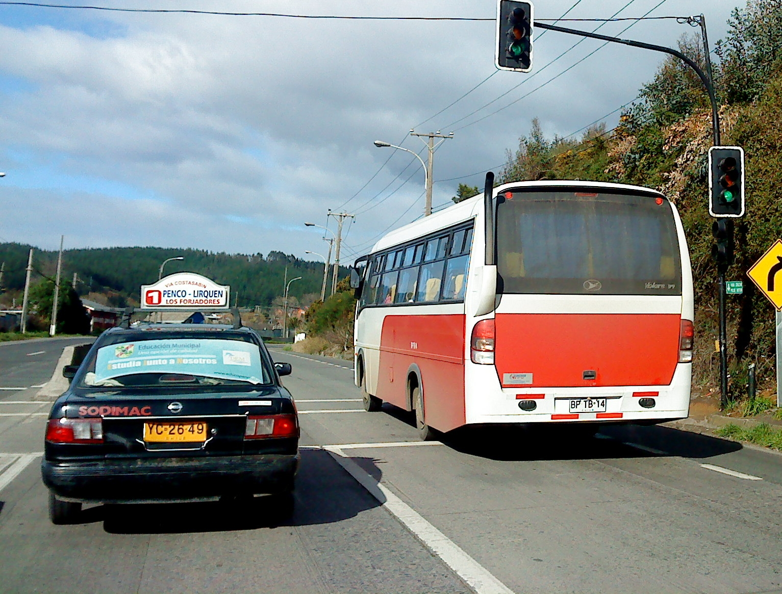 Nissan taxi and bus (reg. BP TB-14) with unknown chassis in Penco, Chile.